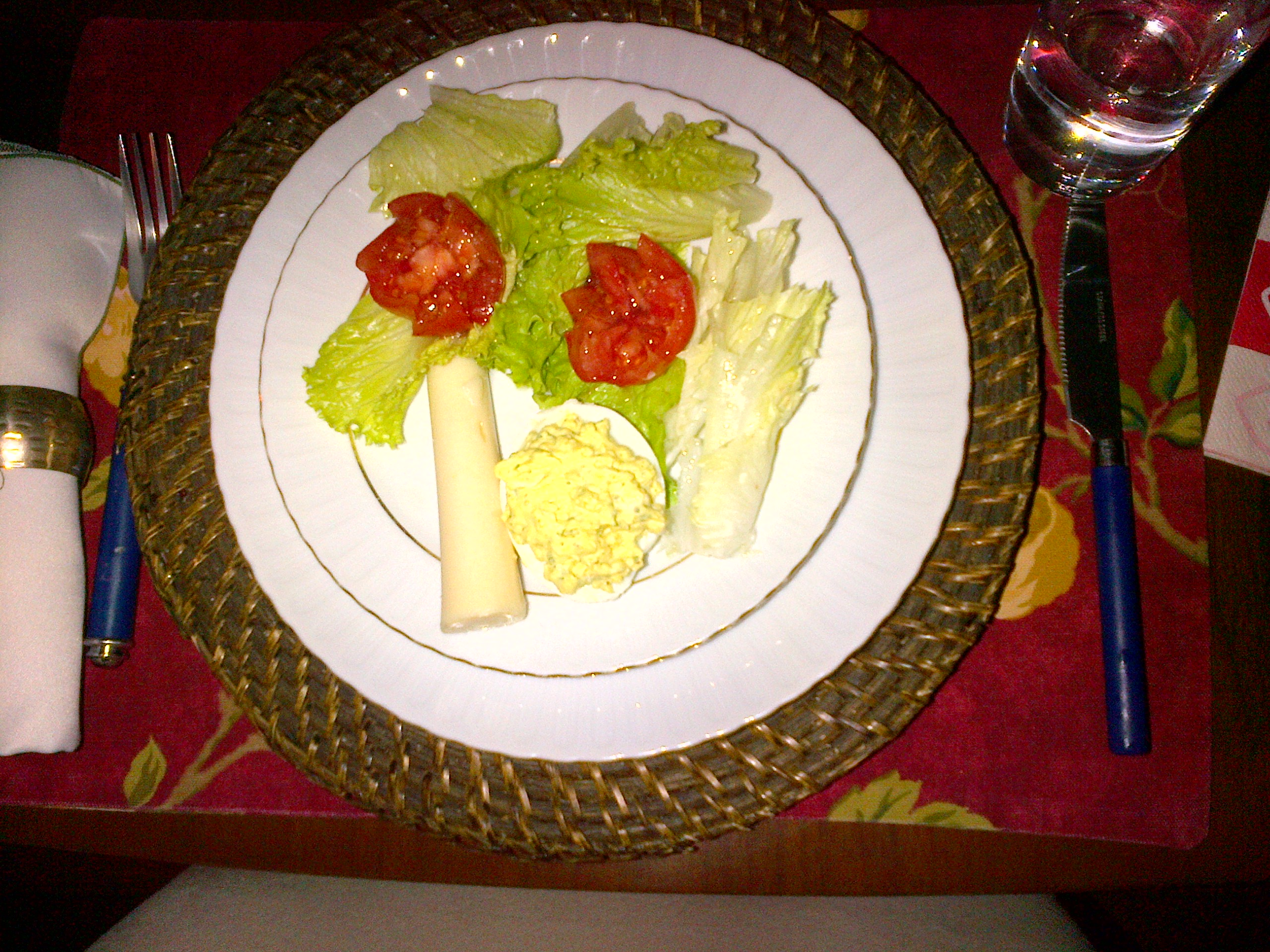 A salad with palmito and a deviled egg